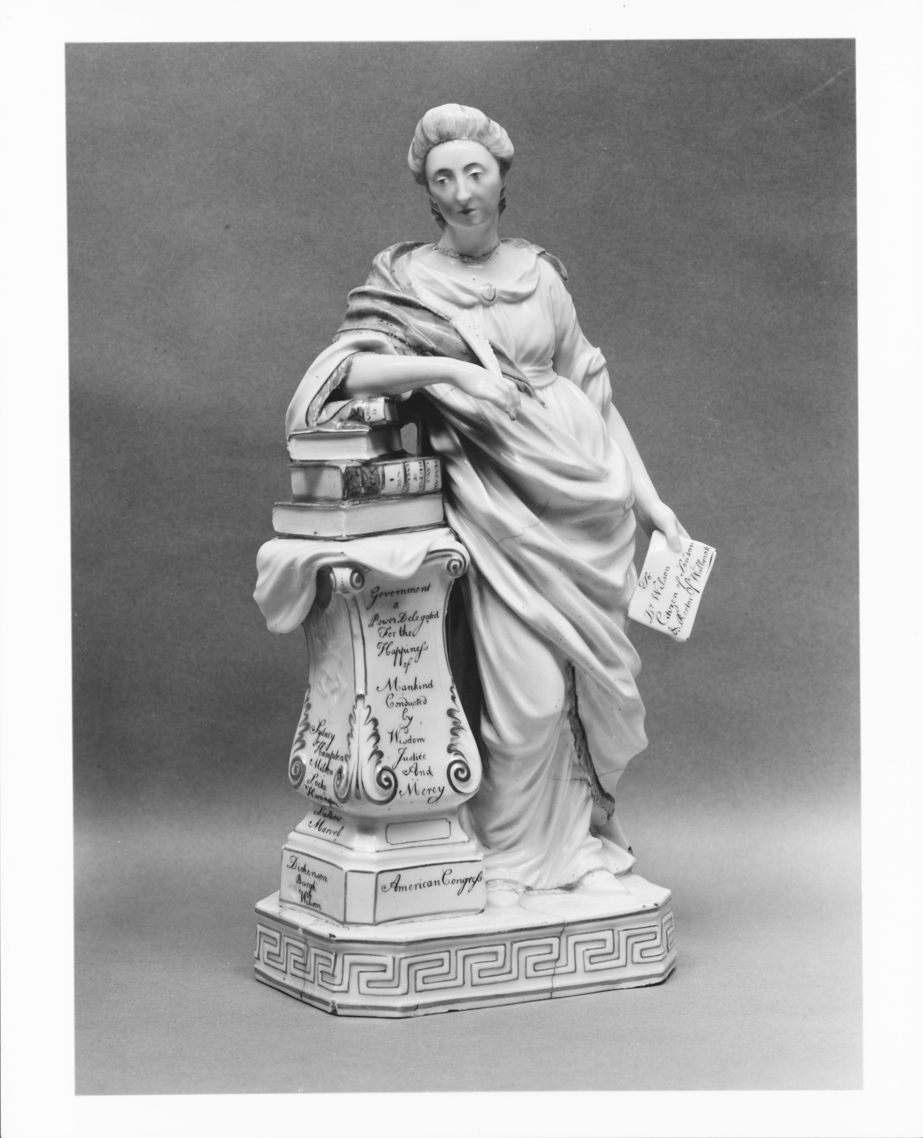 British; Figure; Ceramics